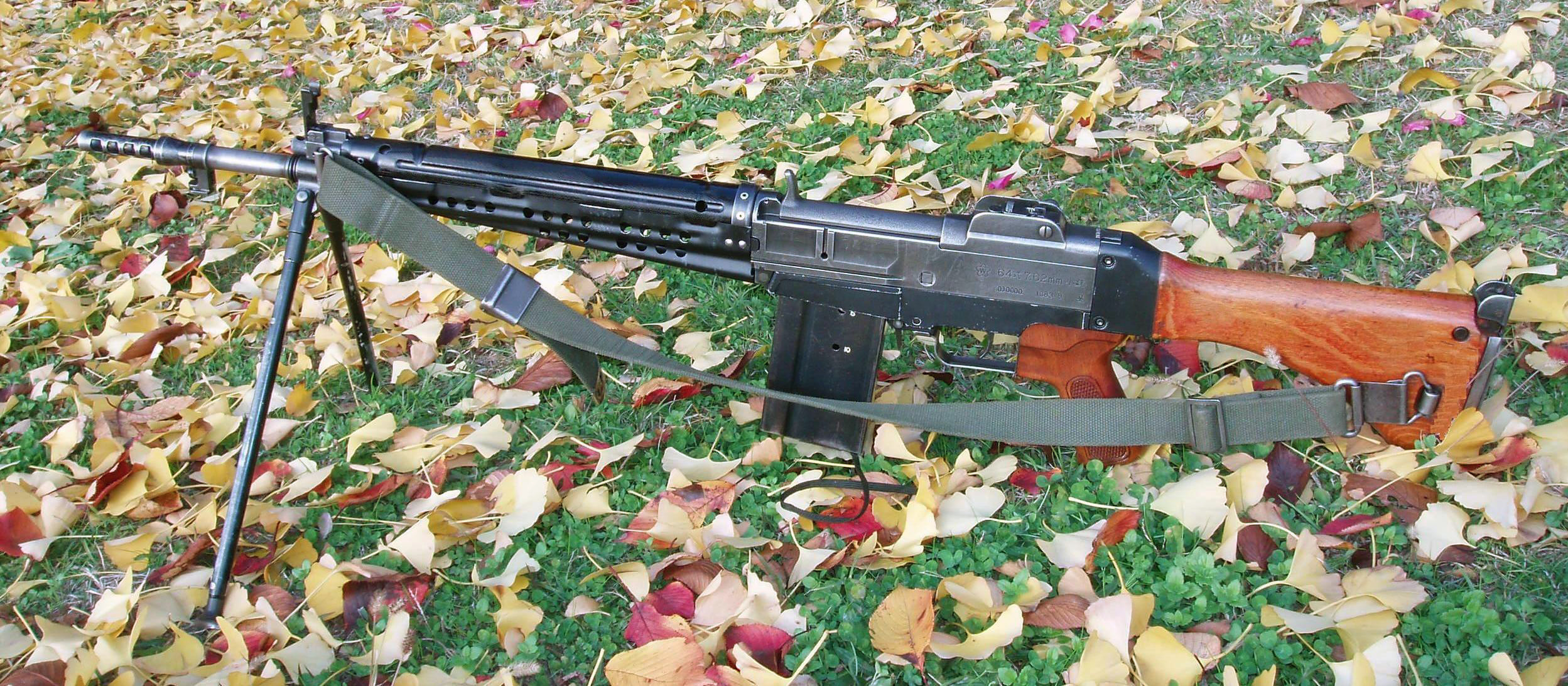 JGSDF type 64 rifle picture